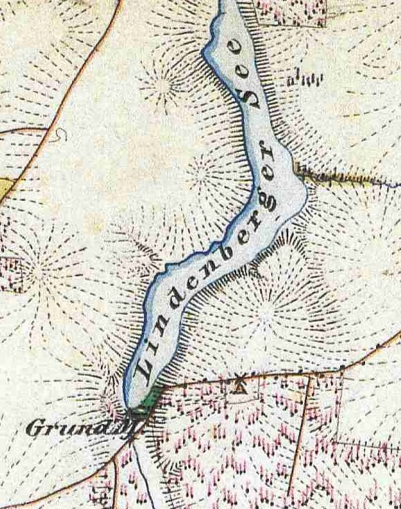 Lindenberger lake with the watermill Grundmühle in Lindenberg, today part of the municipality Tauche in the District Oder-Spree, Brandenburg, Germany. Detail from the Urmesstischblatt (prototype planetable sheet at 1:25,000) Sheet 3850 Kossenblatt, drawn in 1846.